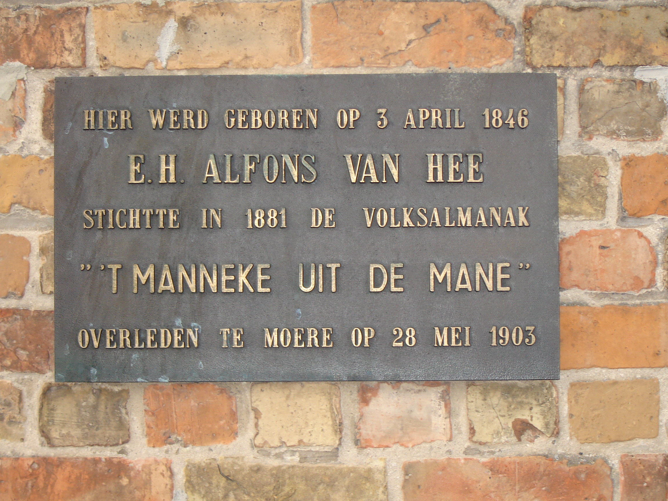 Commemorative plaque on birth house of priest Alfons Van Hee, general editor of "'t Manneke uit de Mane". Plaque on house in city of Lo, West-Flanders, Belgium